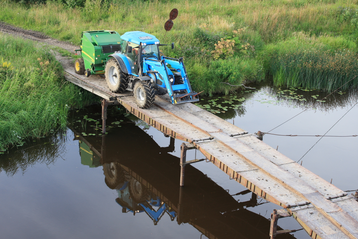 Kloostri bridge at Kasari River, Lääne County, Estonia